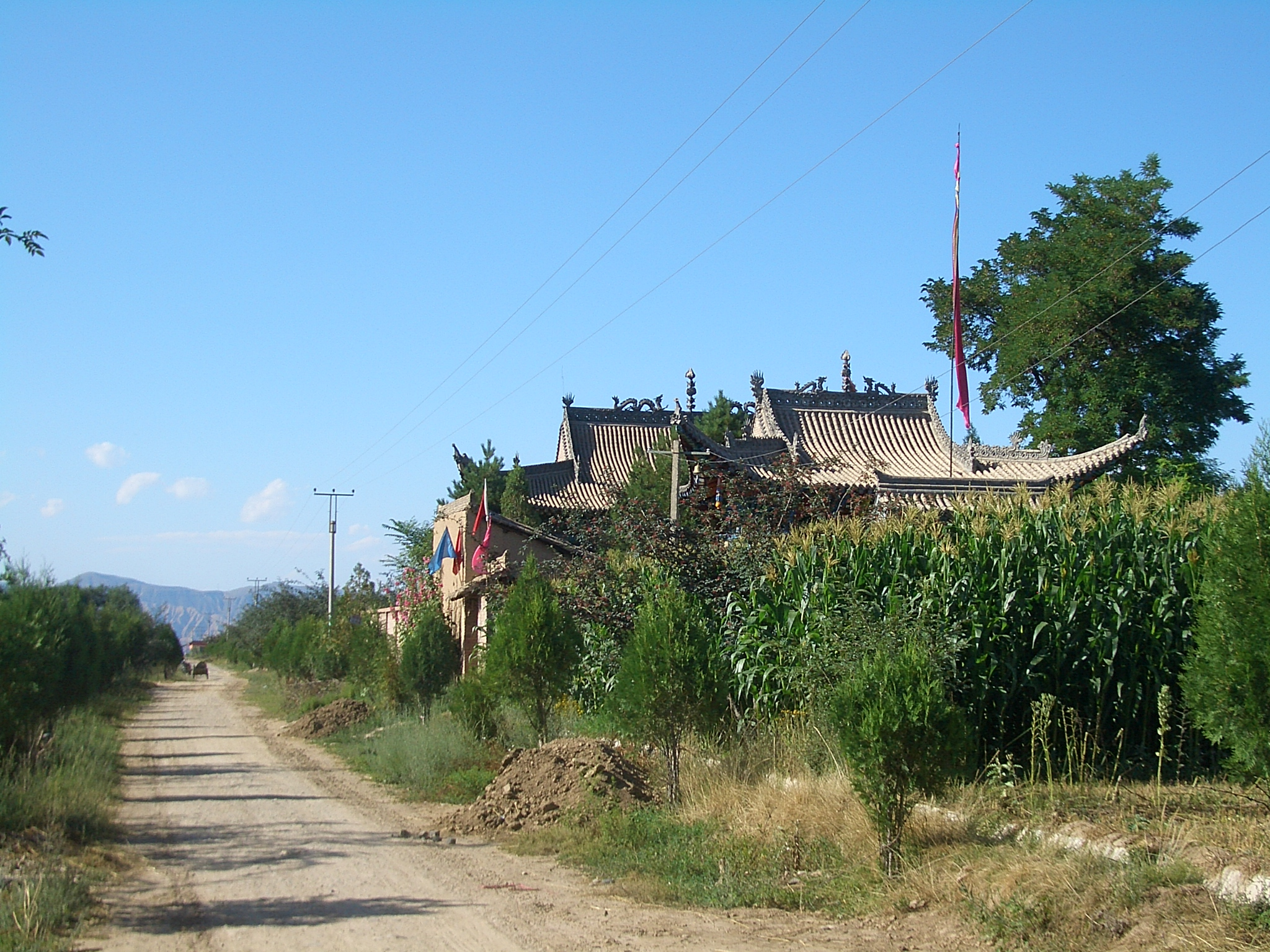 A village temple in the northeastern part of Linxia County (probably, Wangjiazui village in Xihe Township).